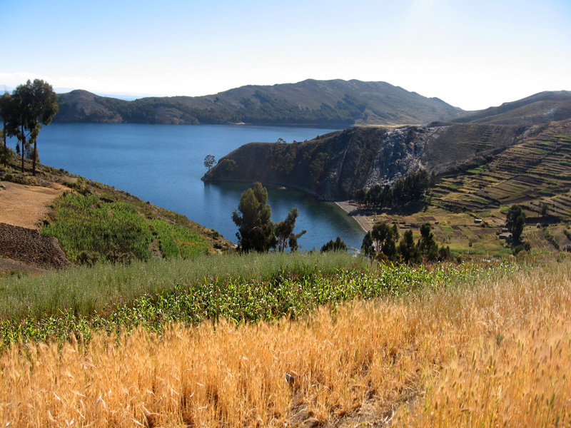 Cool it Down - Velvet Underground // Isla del Sol / Bolivia